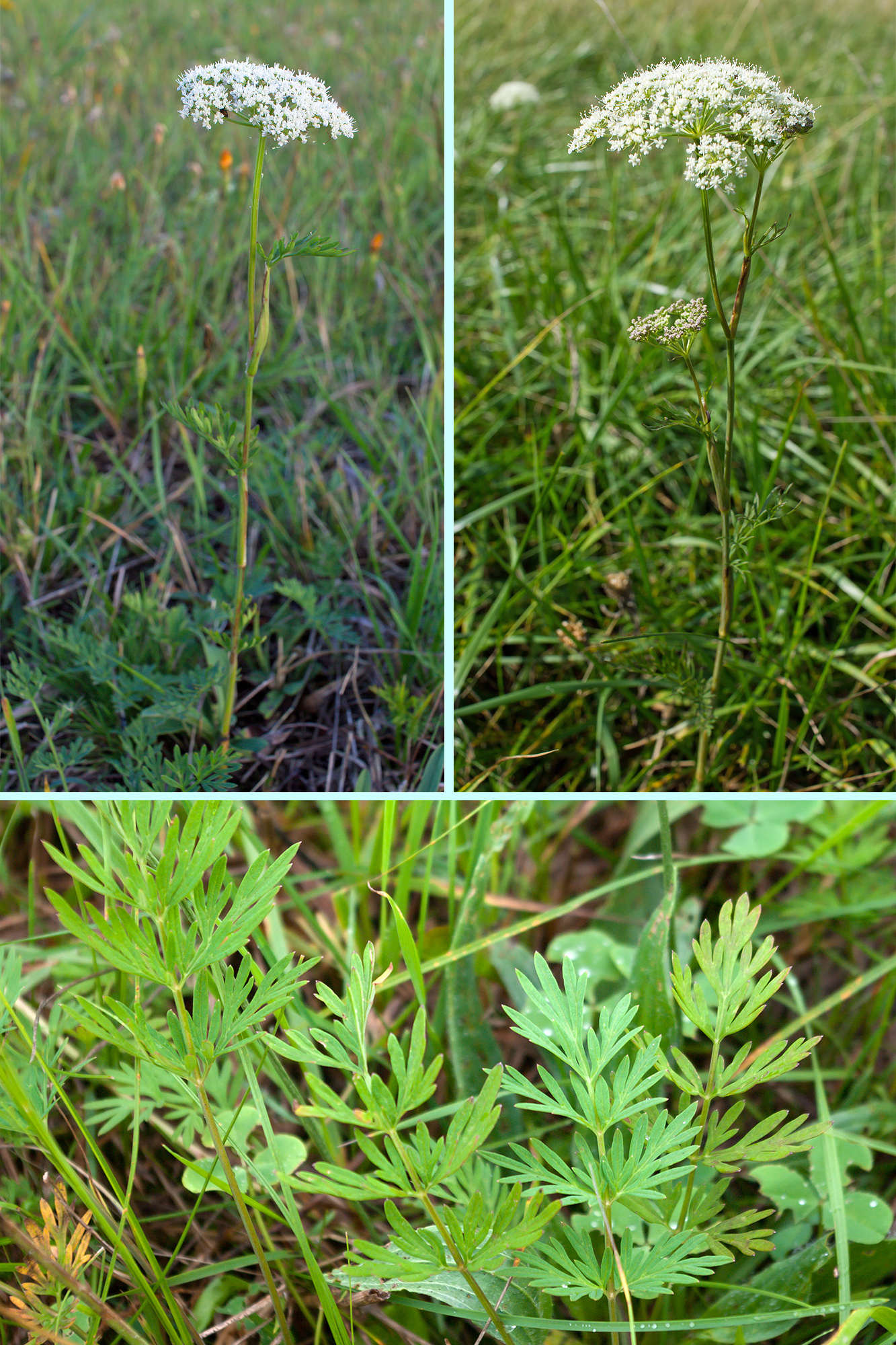 Habitus of flowering Selinum dubium / Cnidium dubium / Kadenia dubia and the species' leaves.